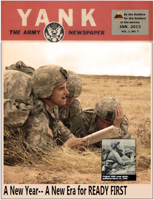 January 2015 cover photo of 1/1 AD YANK magazine. Three infantrymen with Bravo Company, 3rd Battalion, 41st Infantry Regiment, 1st Brigade, 1st Armored Division, recreate the original YANK cover photo from March 30, 1945.